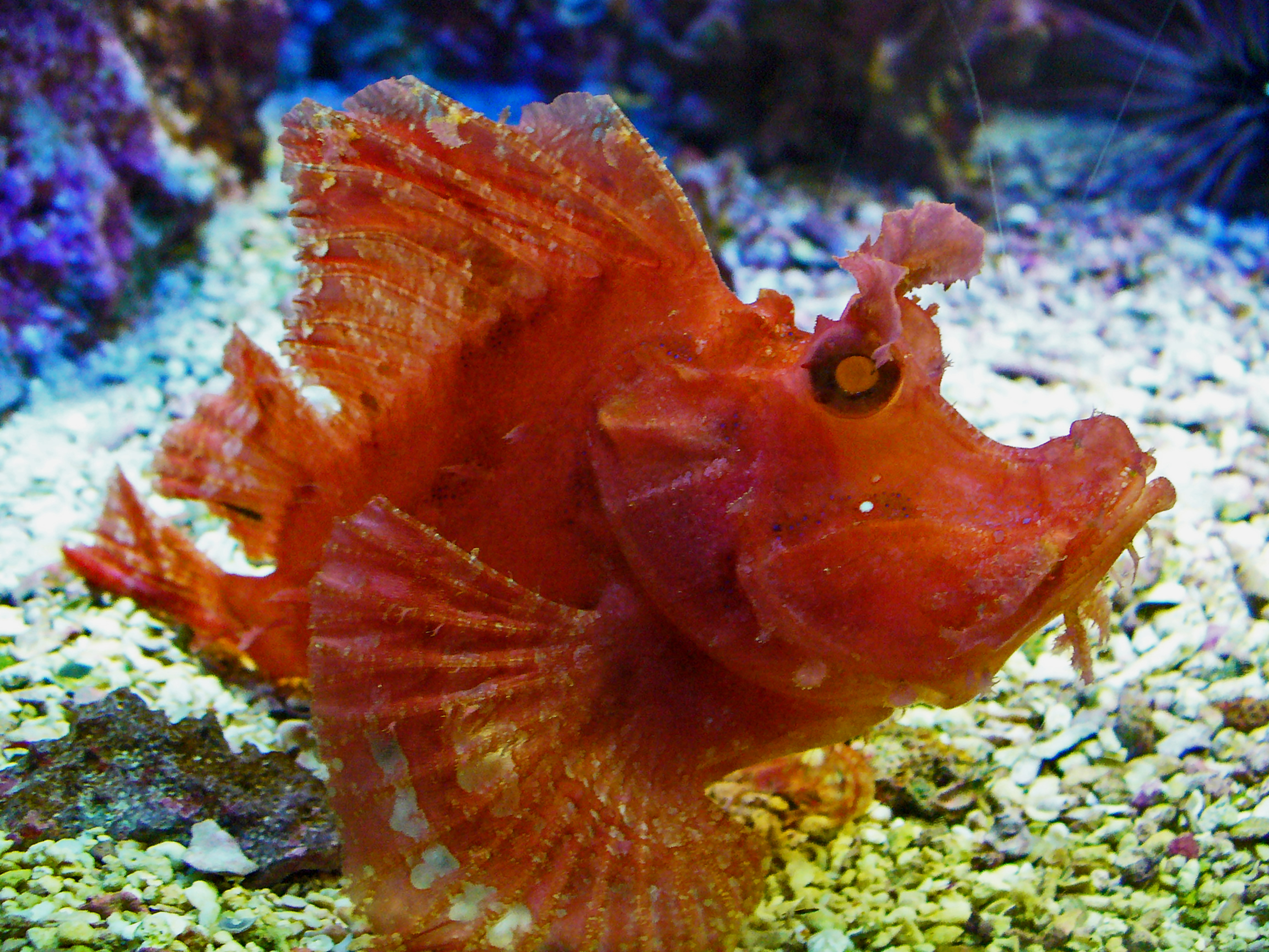 Rhinopias frondosa, Scorpaenidae, Weedy scorpionfish; Staatliches Museum für Naturkunde Karlsruhe, Germany.